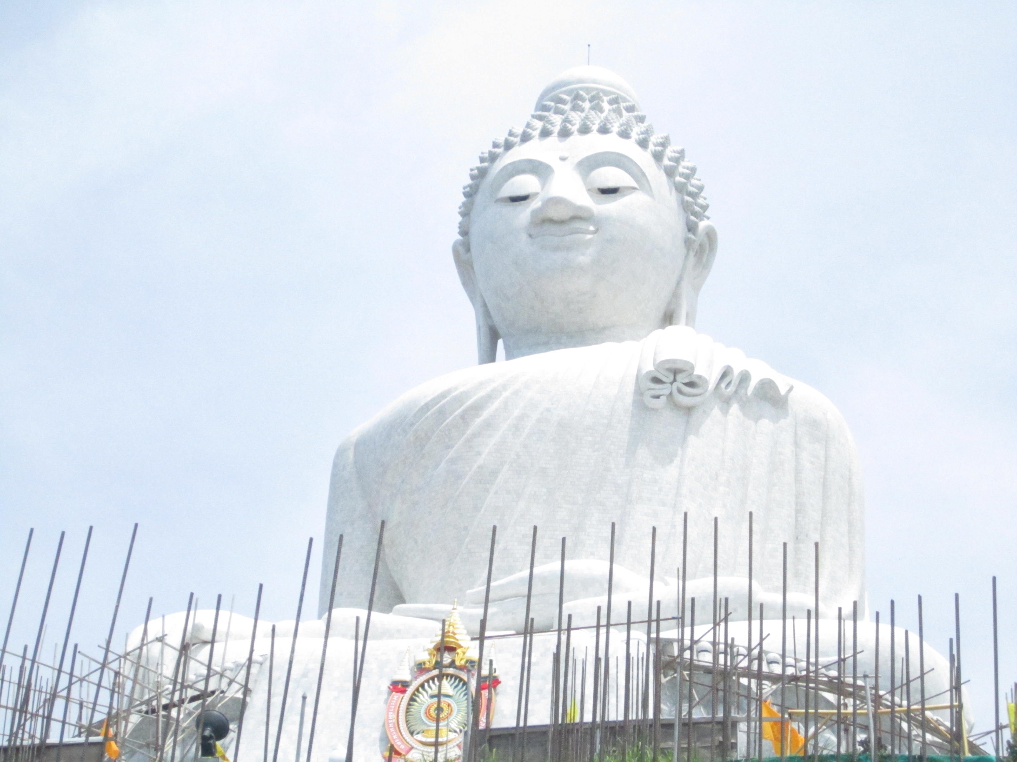 Big Buddha at Phuket